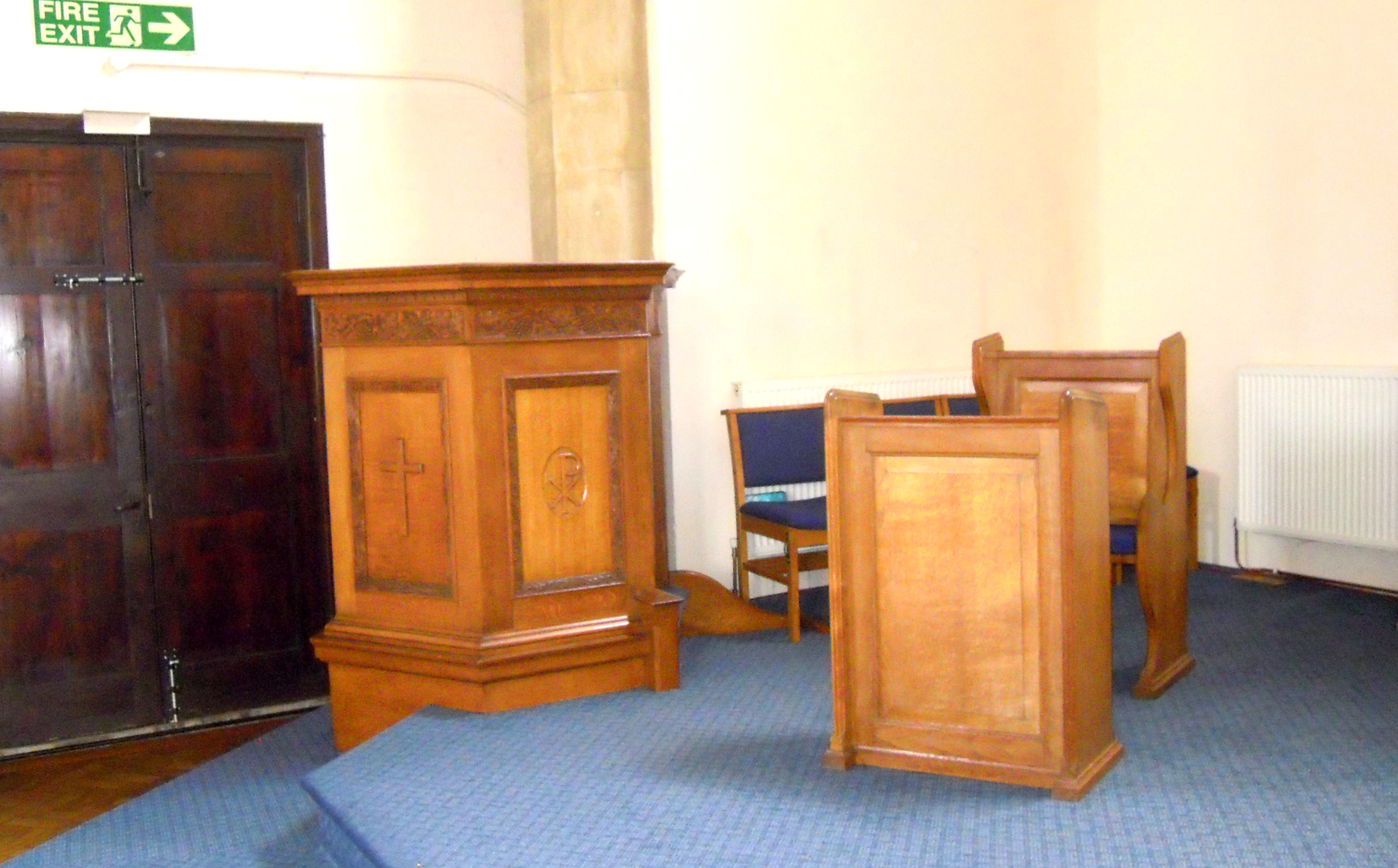 The pulpit (left) in the Church of St Paul in Letchworth in Hertfordshire